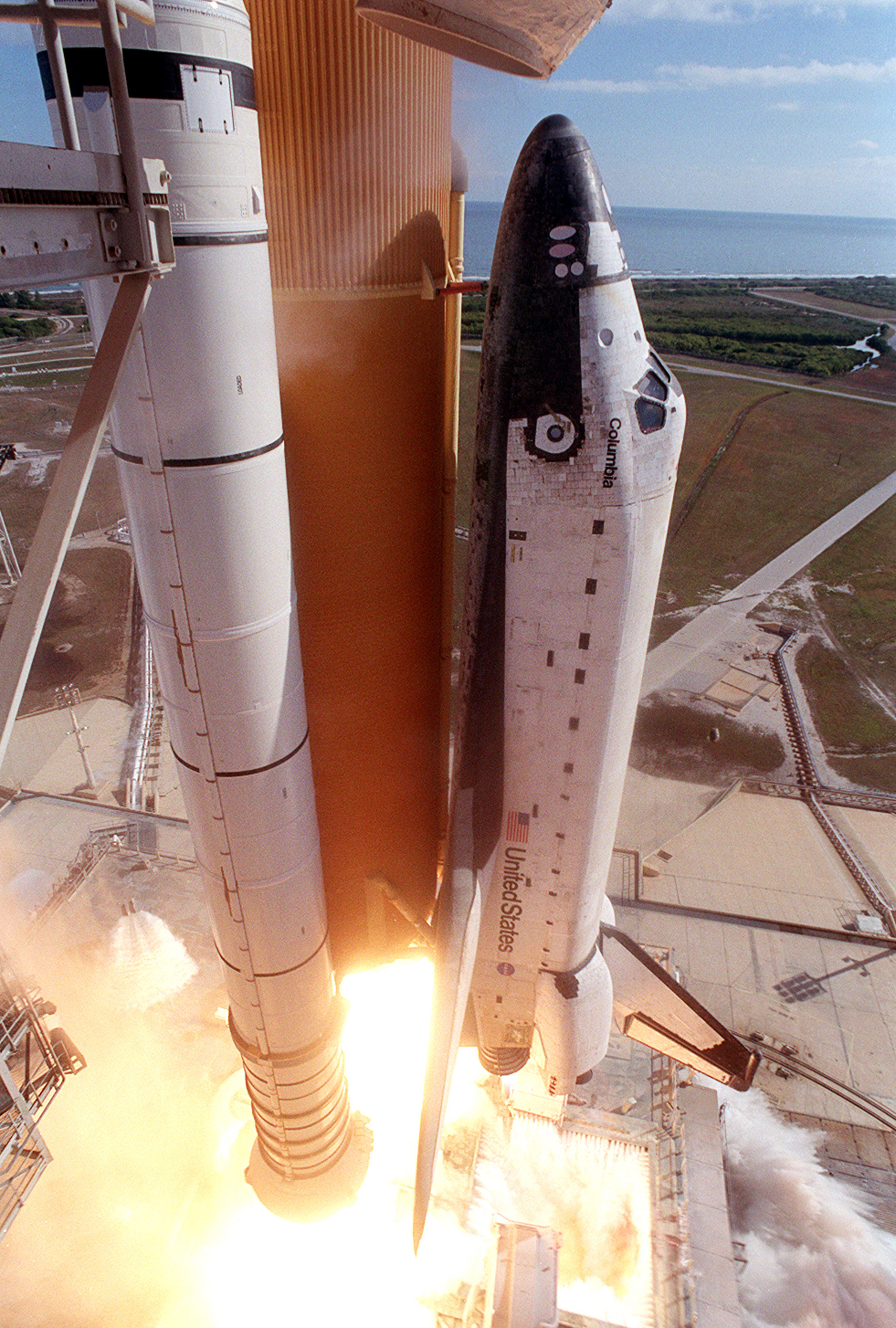 A close-up camera view shows Space Shuttle Columbia as it lifts off from Launch Pad 39A on mission STS-107. Launch occurred on schedule on 16th of January, 2003 at 10:39 EST (15:39 UTC).